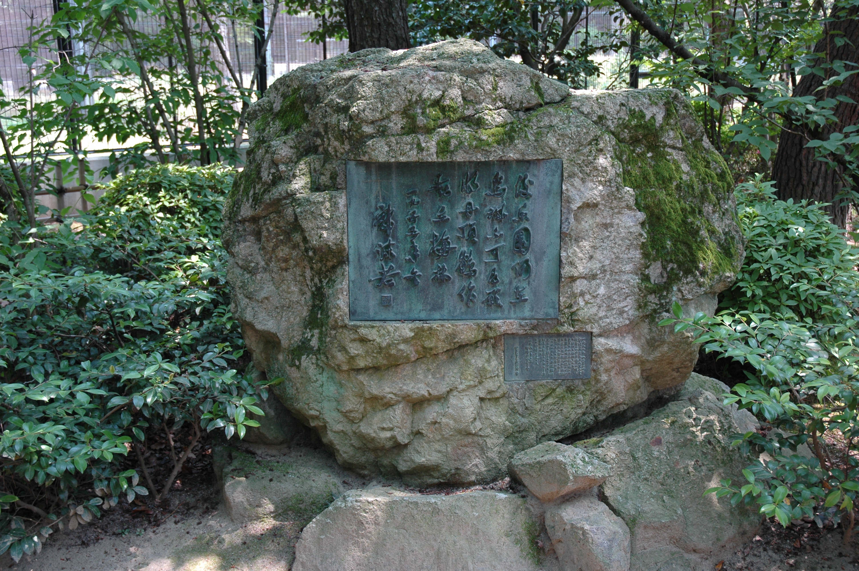 stone monument of Guo Moruo's poem in Korakuen, Okayama, Okayama, Japan